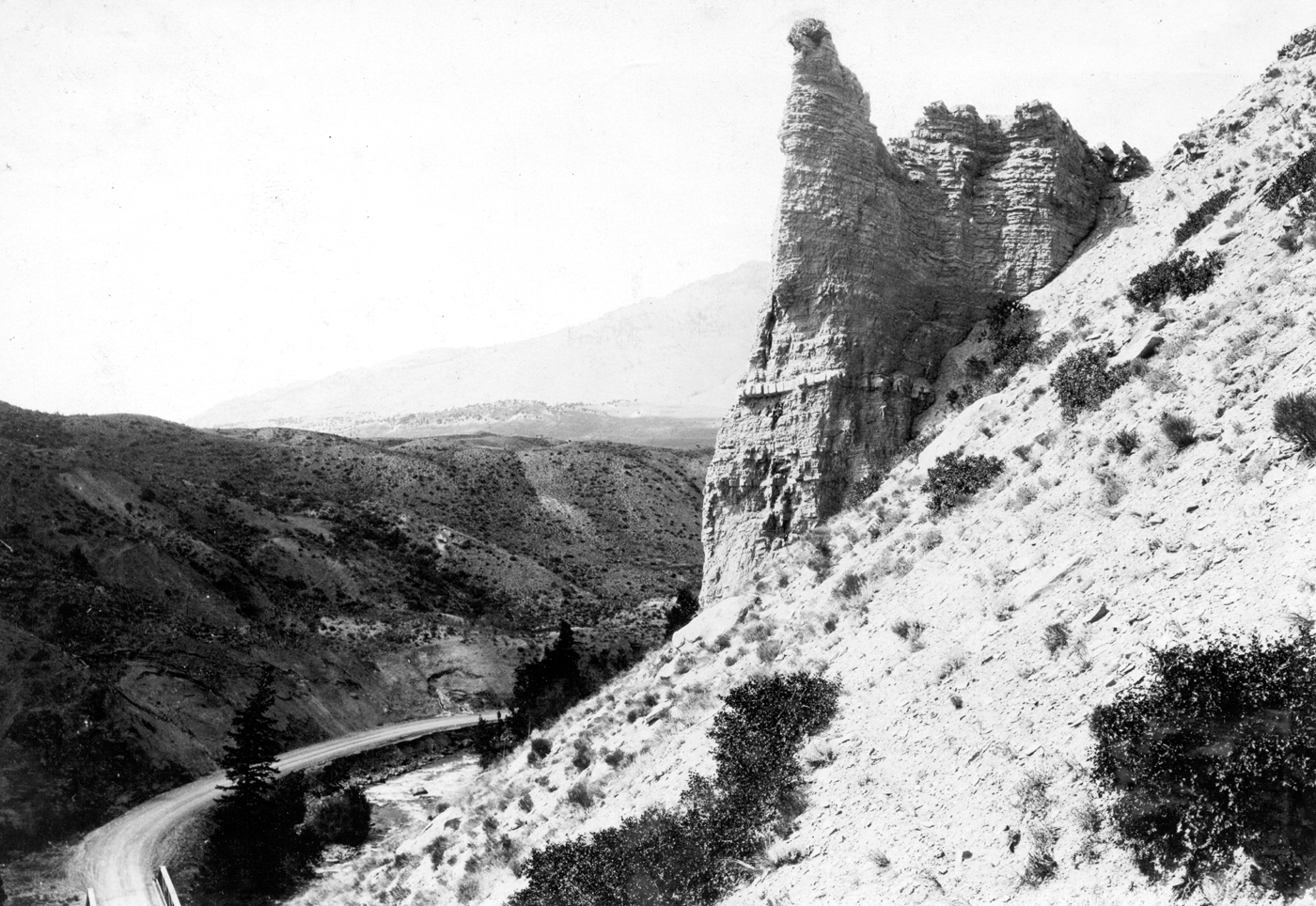 Eagle Nest Rock, a Sandstone Pillar in the Gardner River Canyon, Yellowstone National Park, Wyoming. An Osprey nesting site.